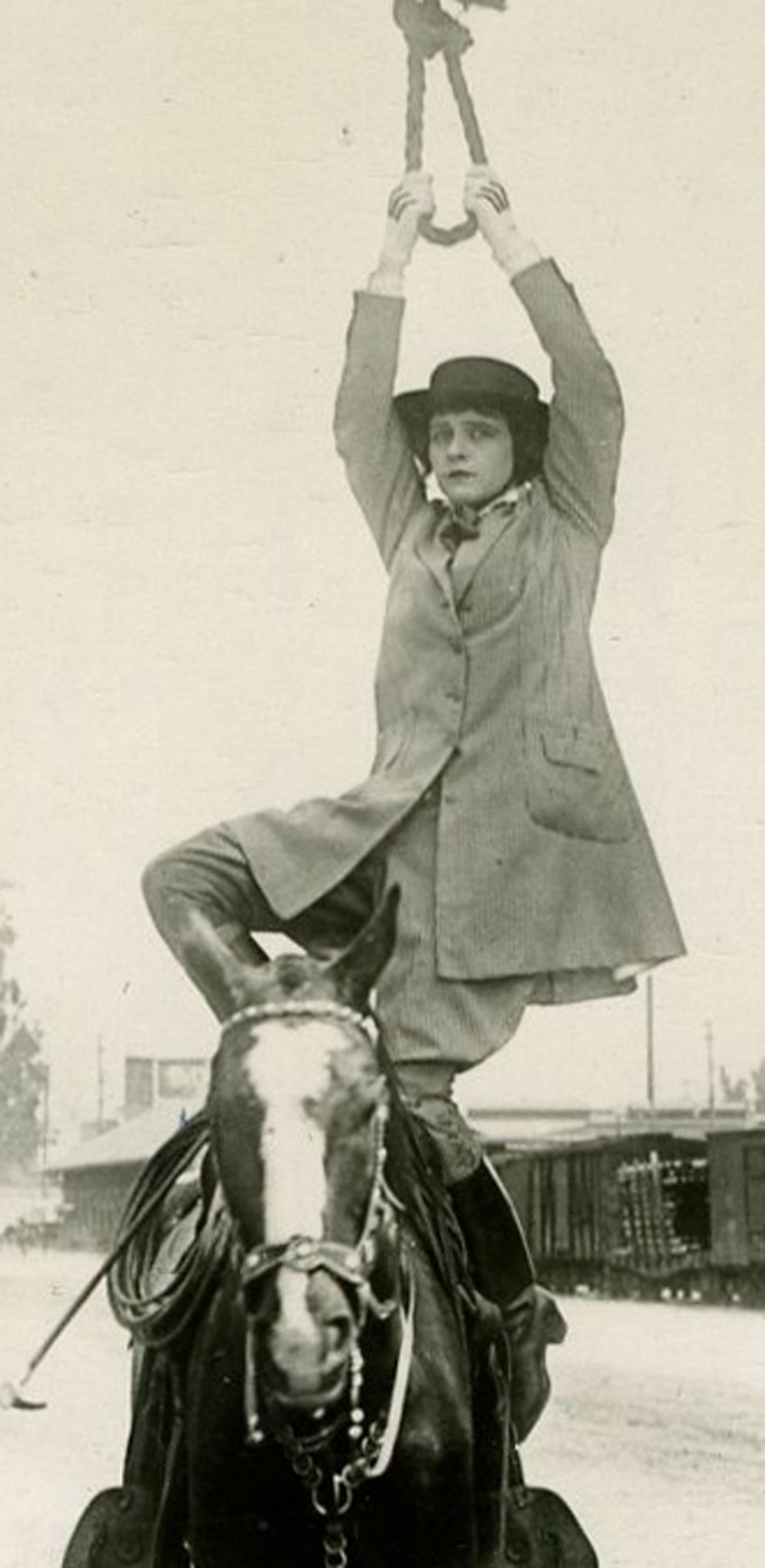 Helen Gibson in a 1916 episode of The Hazards of Helen, a film serial released from 1914 to 1917.